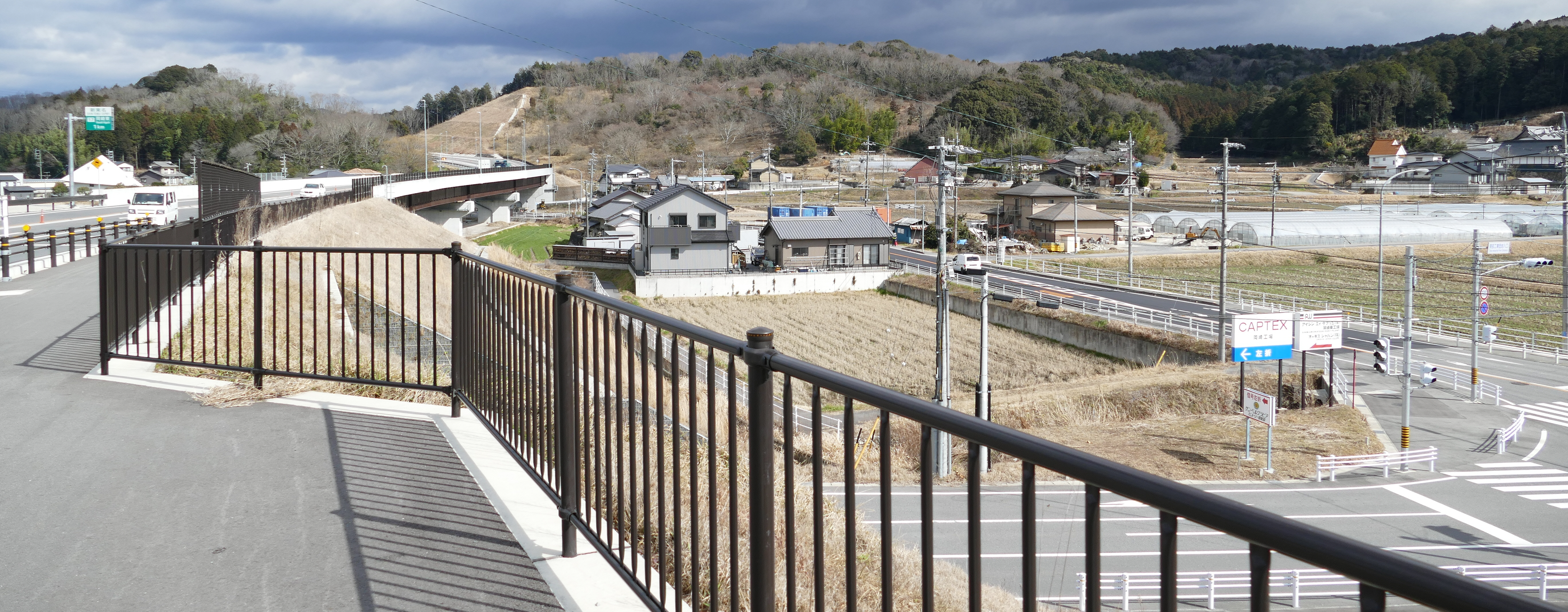 Okazaki-Nukata ByPass,Aichi prefecture,Japan